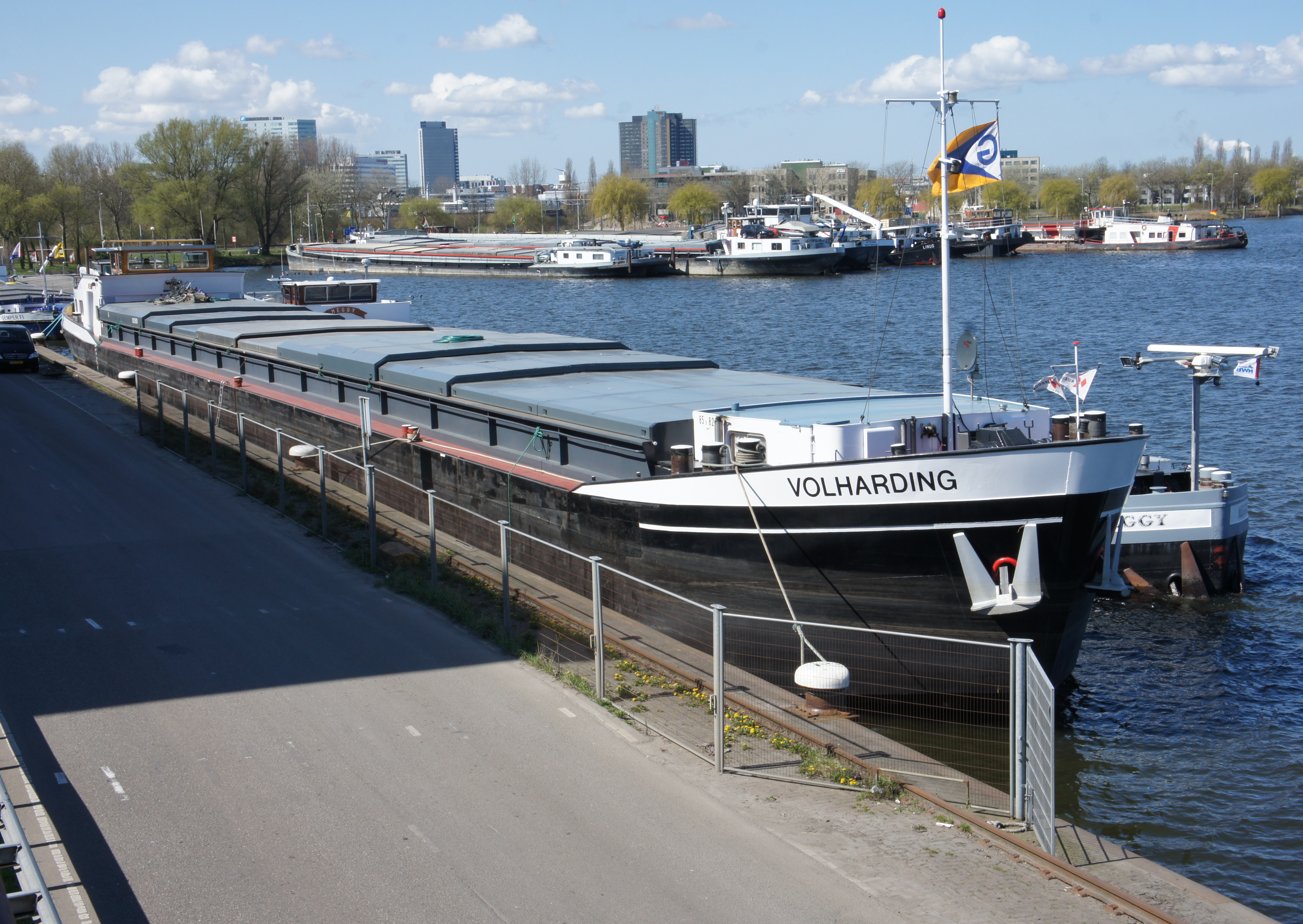 Neptunushaven, Port of Amsterdam.